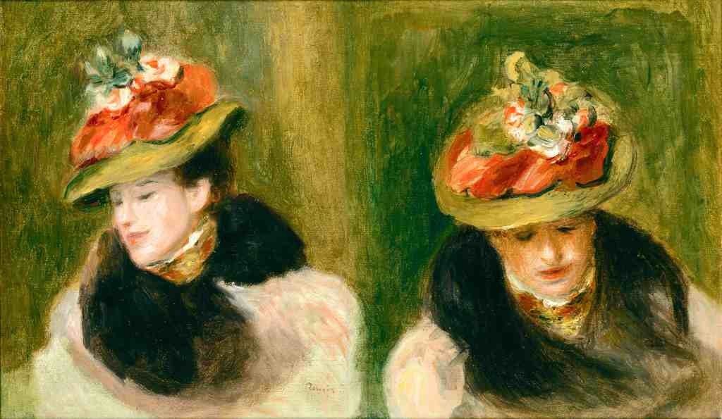 Pierre-Auguste Renoir, Double portrait of Jeanne Baudot, 1896